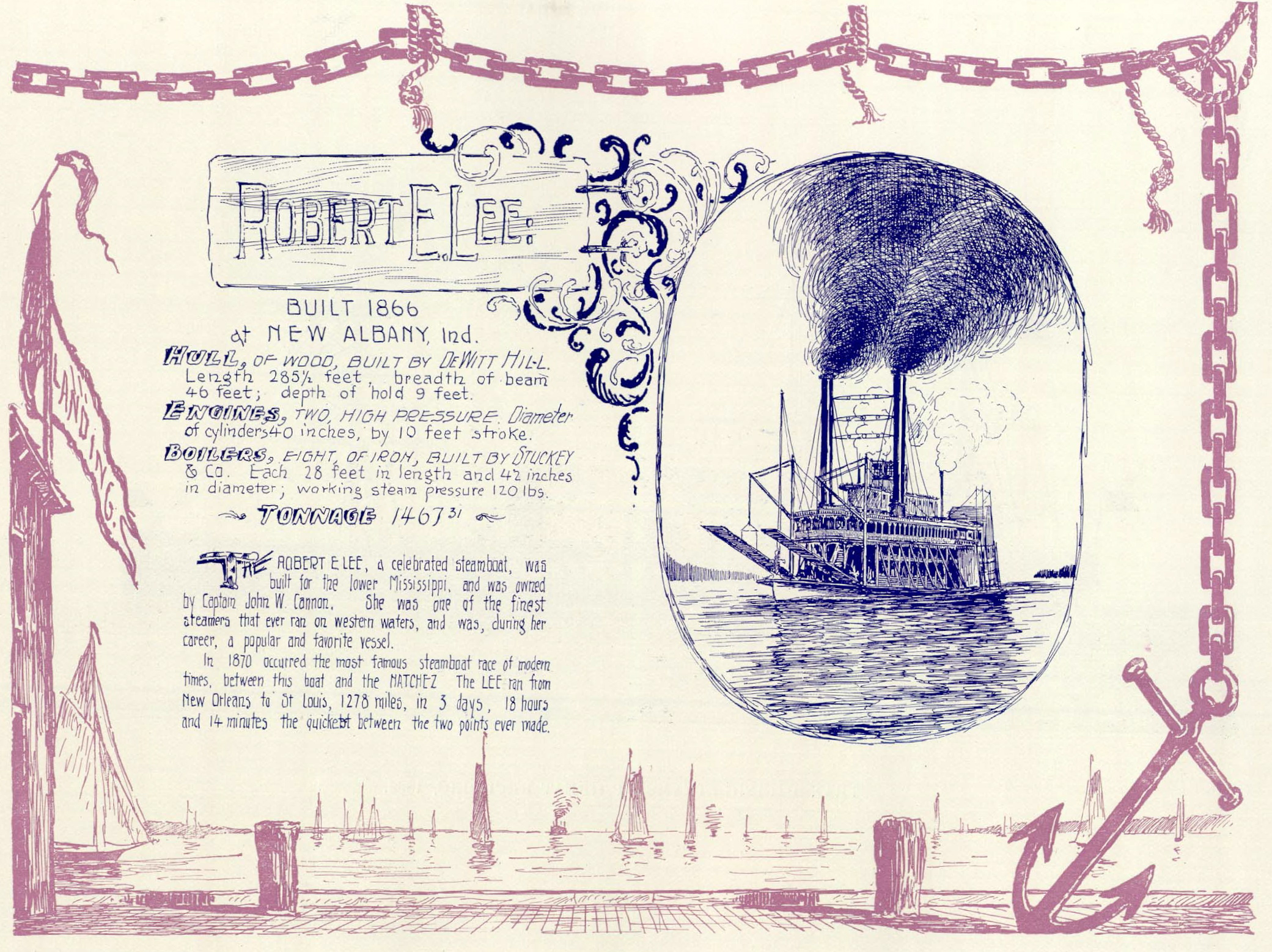 Steamboat Robert E. Lee